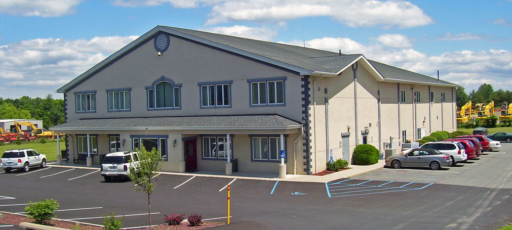 Photographed by Daniel Case 2007-06-06